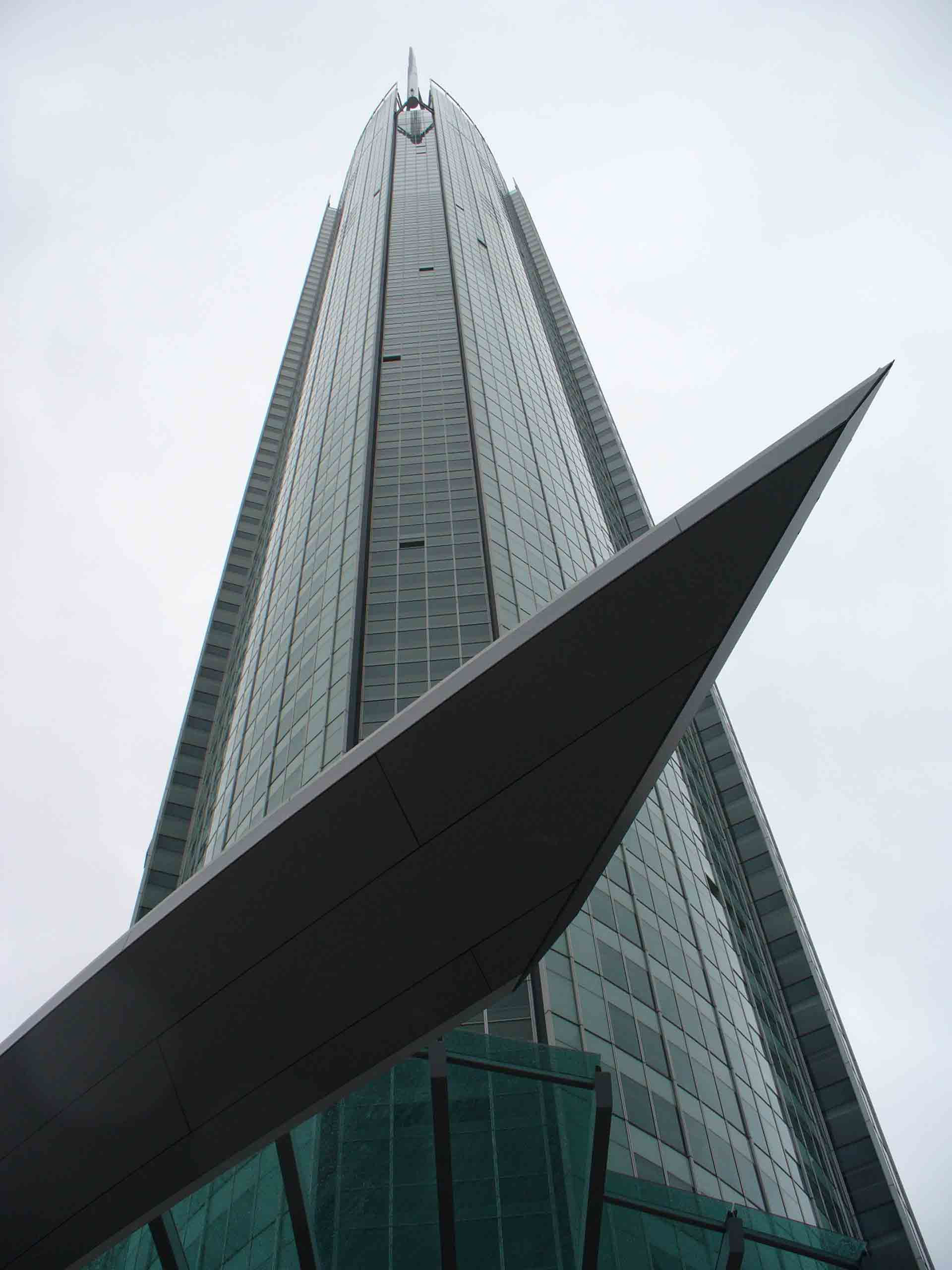 Q1 Building in Queensland, Australia